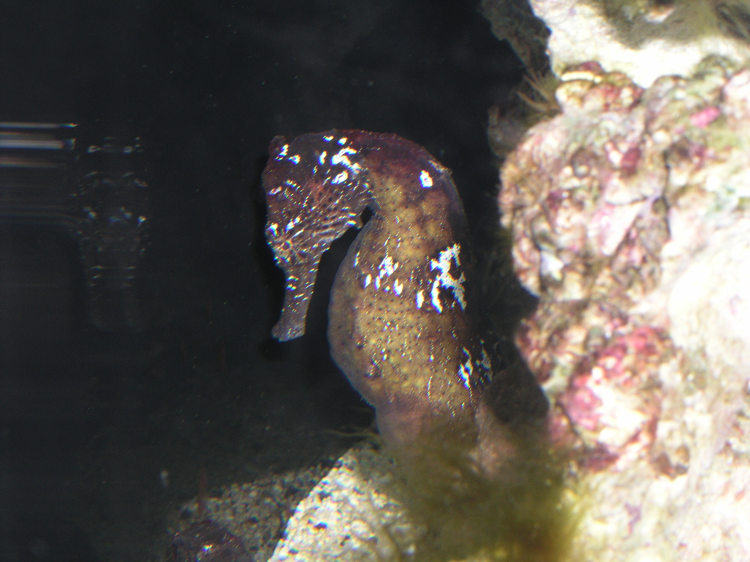 Waikiki Aquarium